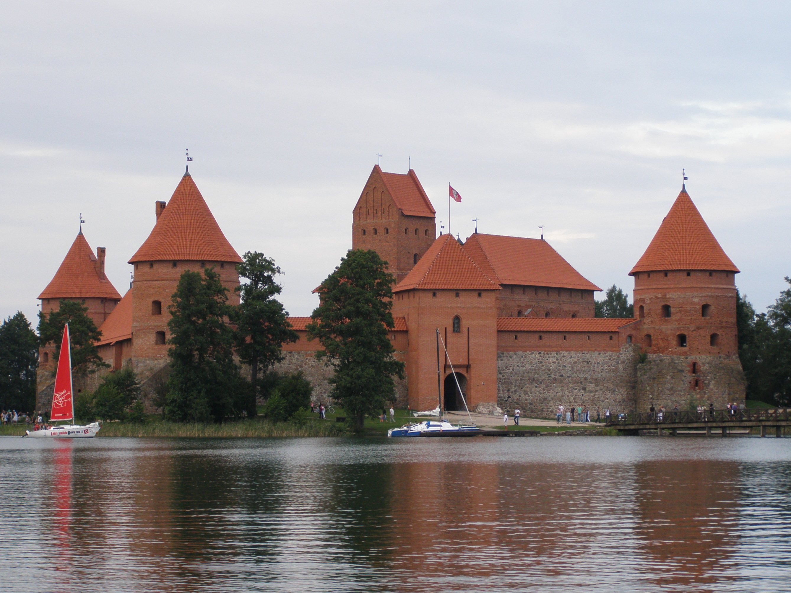 Trakai Island Castle